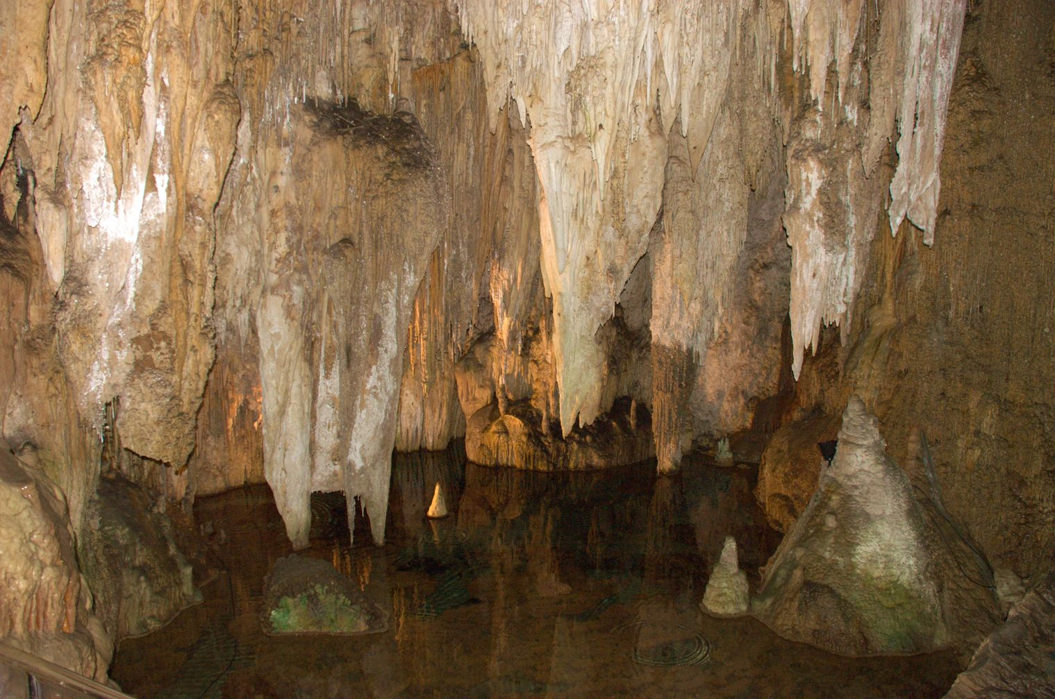 Furong Cave — a Karst cave with limestone formations, in a park within the South China Karst World Heritage Site, in South-Central China. Located 20 km (12 mi) from Wulong town, in Wulong County, Chongqing Municipality (province level).